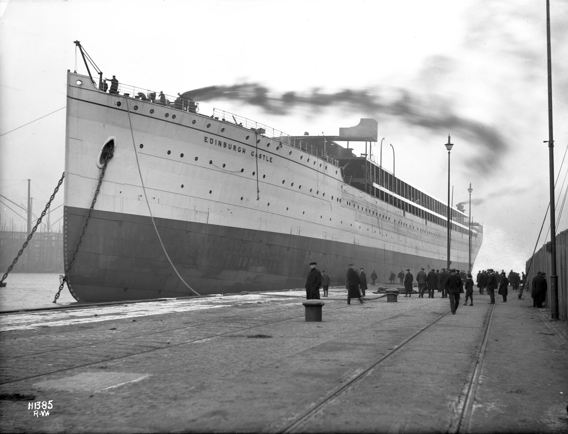 Edinburgh Castle (1910 ship) after launch at Belfast